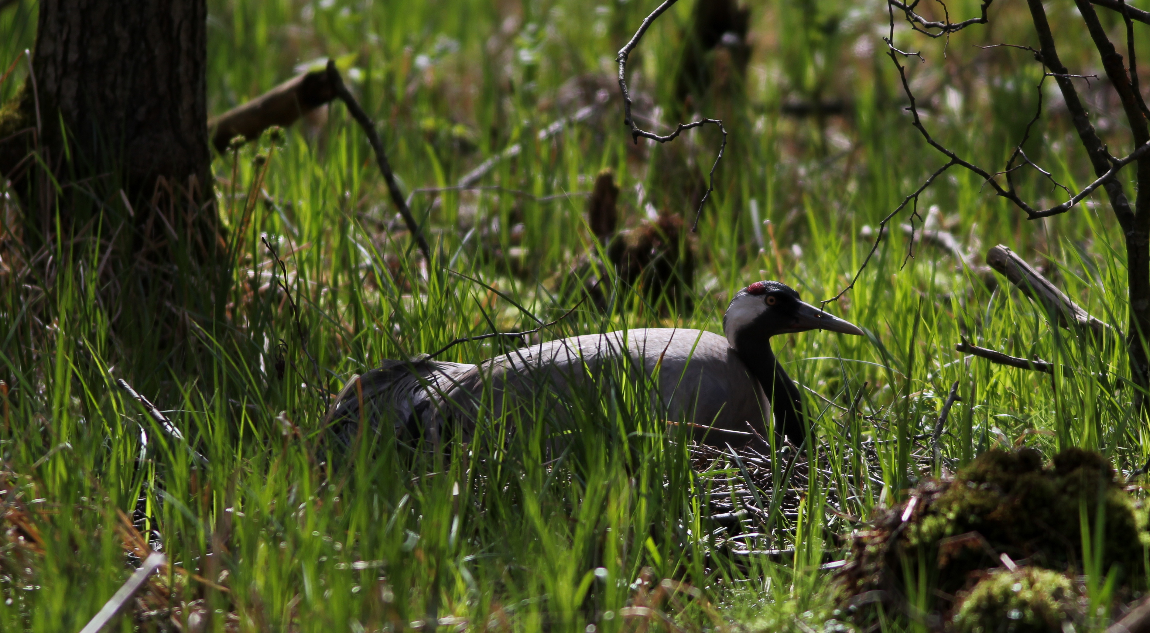 Gray crane